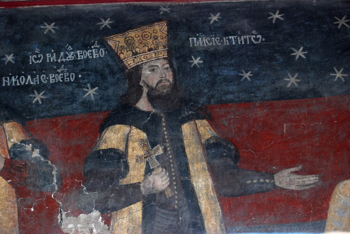 Radu VII Paisie, Prince of Wallachia (1535-1545)